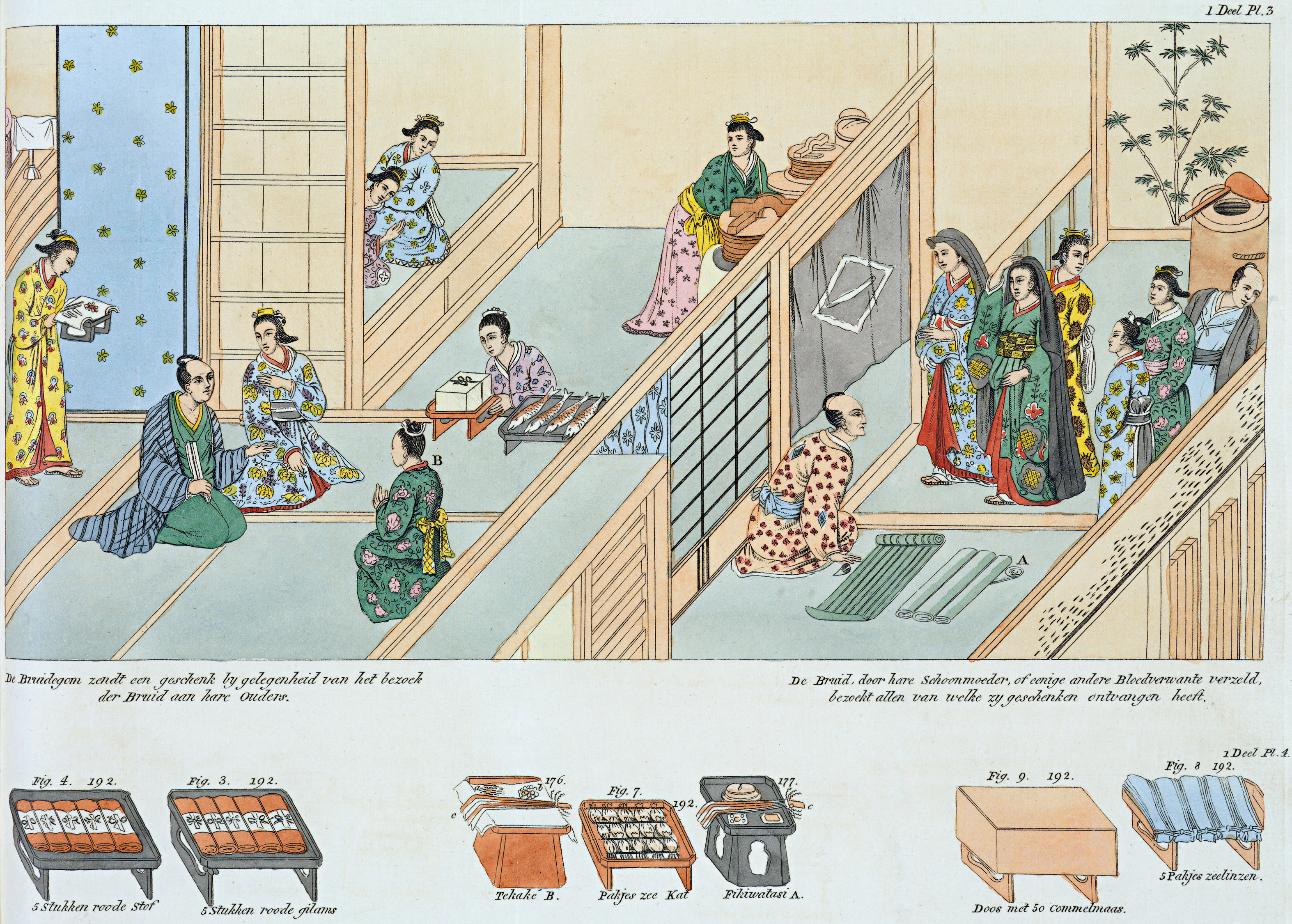 Isaac Titsingh, Bijzonderheden over Japan. Left: the bridegroom sends a gift at the occasion of the visit of the bride to her parents. Right: the bride, accompanied by her mother in law or other near relatives, visits all those from whom she received gifts. (1 Part Pl 3)